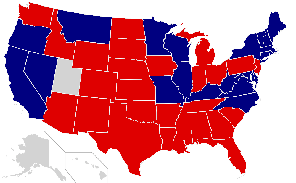 A map of the current Secretaries of State of U.S. states by party affiliations Democratic incumbent Republican incumbent Independent incumbent Office does not exist